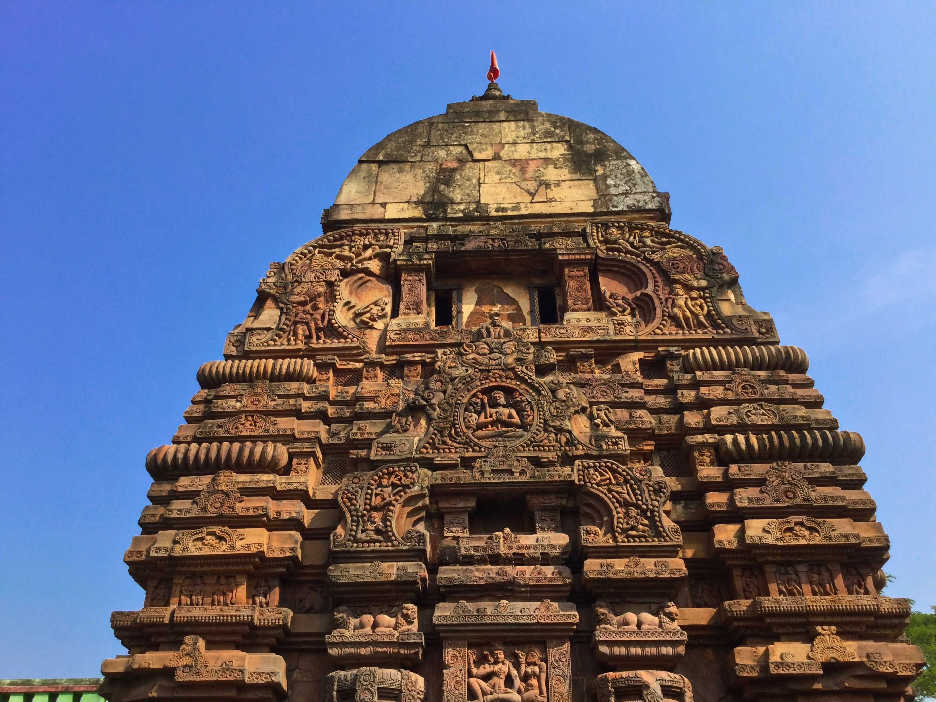 Baitala Deula (alternatively spelled Vaital Deula), 8th-century Chamunda temple in Bhubaneswar, Odisha, India. ଓଡ଼ିଆ: ଅଷ୍ଟମ ଶତାବ୍ଦୀରେ ନିର୍ମିତ ଚାମୁଣ୍ଡାଙ୍କ ମନ୍ଦିର ବଇତାଳ ଦେଉଳ । ଏହା ଭୁବନେଶ୍ୱରରେ ସ୍ଥିତ । ମୁଖ୍ୟ ଦେଉଳ ।